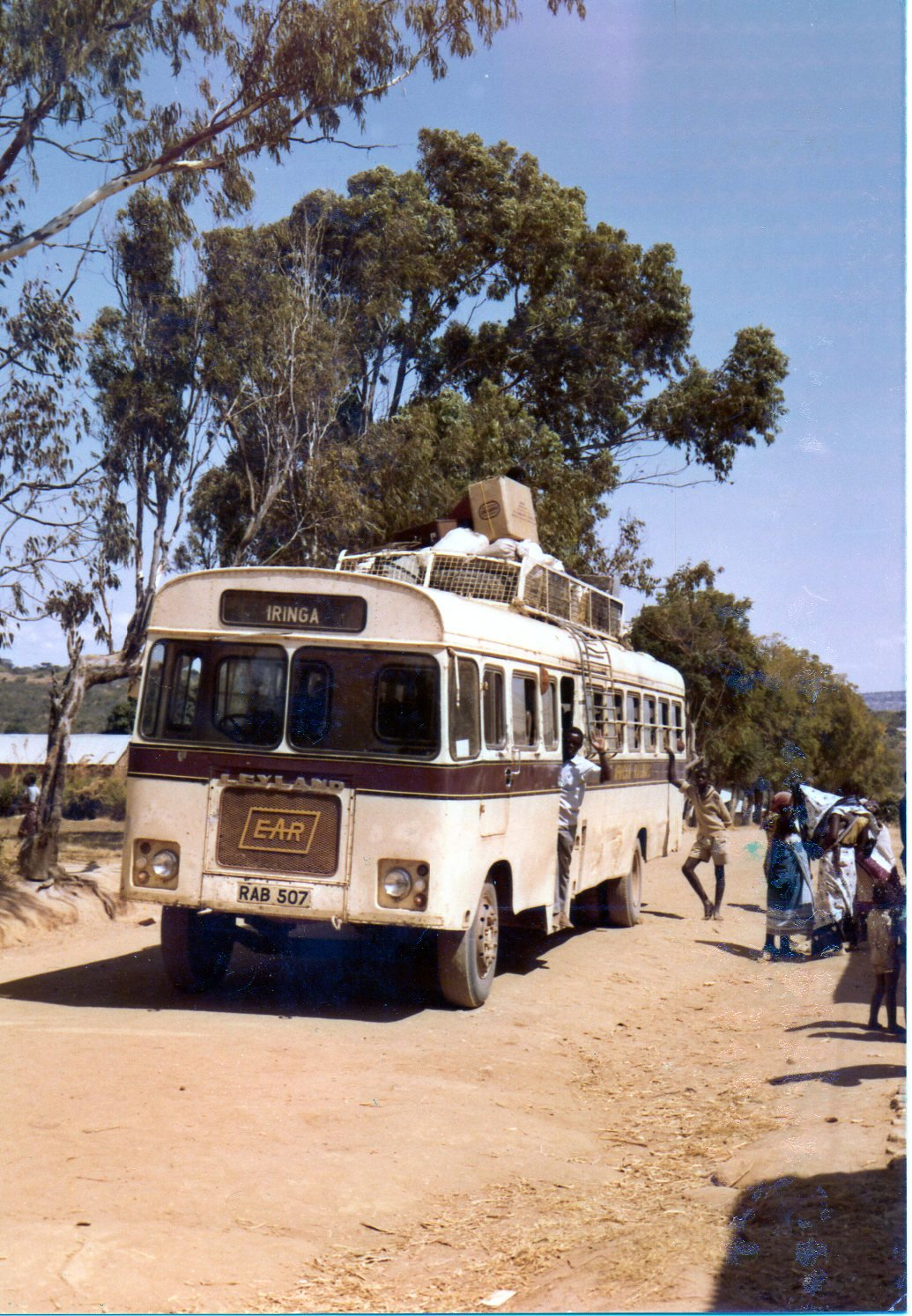 An East African Railways bus. It was part of a network comprising trains, buses and hotels. Because of rough road conditions it was not infrequent for these old Leyland buses to breakdown on the way. The side door marks the boundary between two sections : 1st and 2nd class passengers were travelling at the front, while 3rd class were sitting at the back.